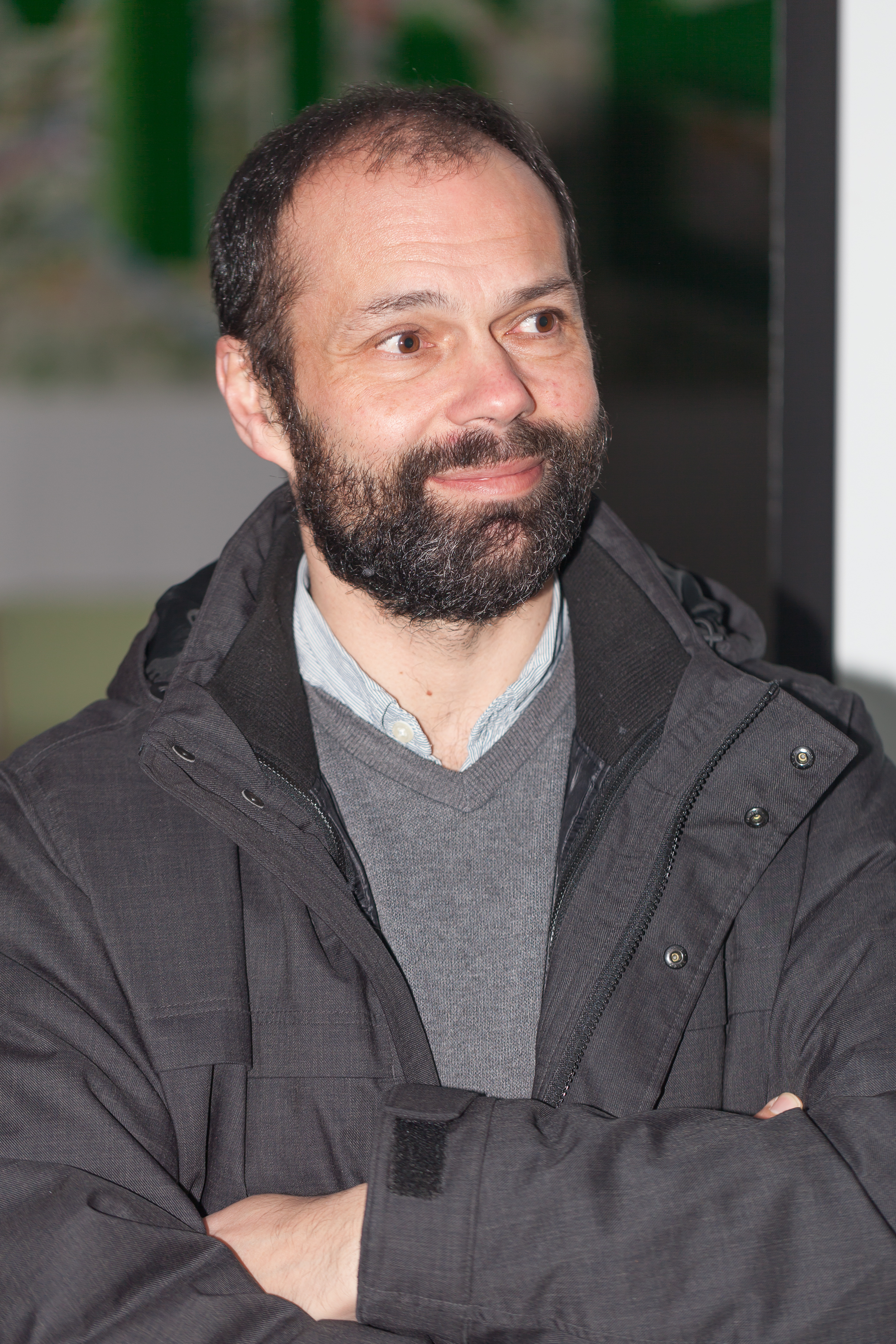 Xesús Fraga, galician writer. IES Manuel García Barros. Galicia (Spain).